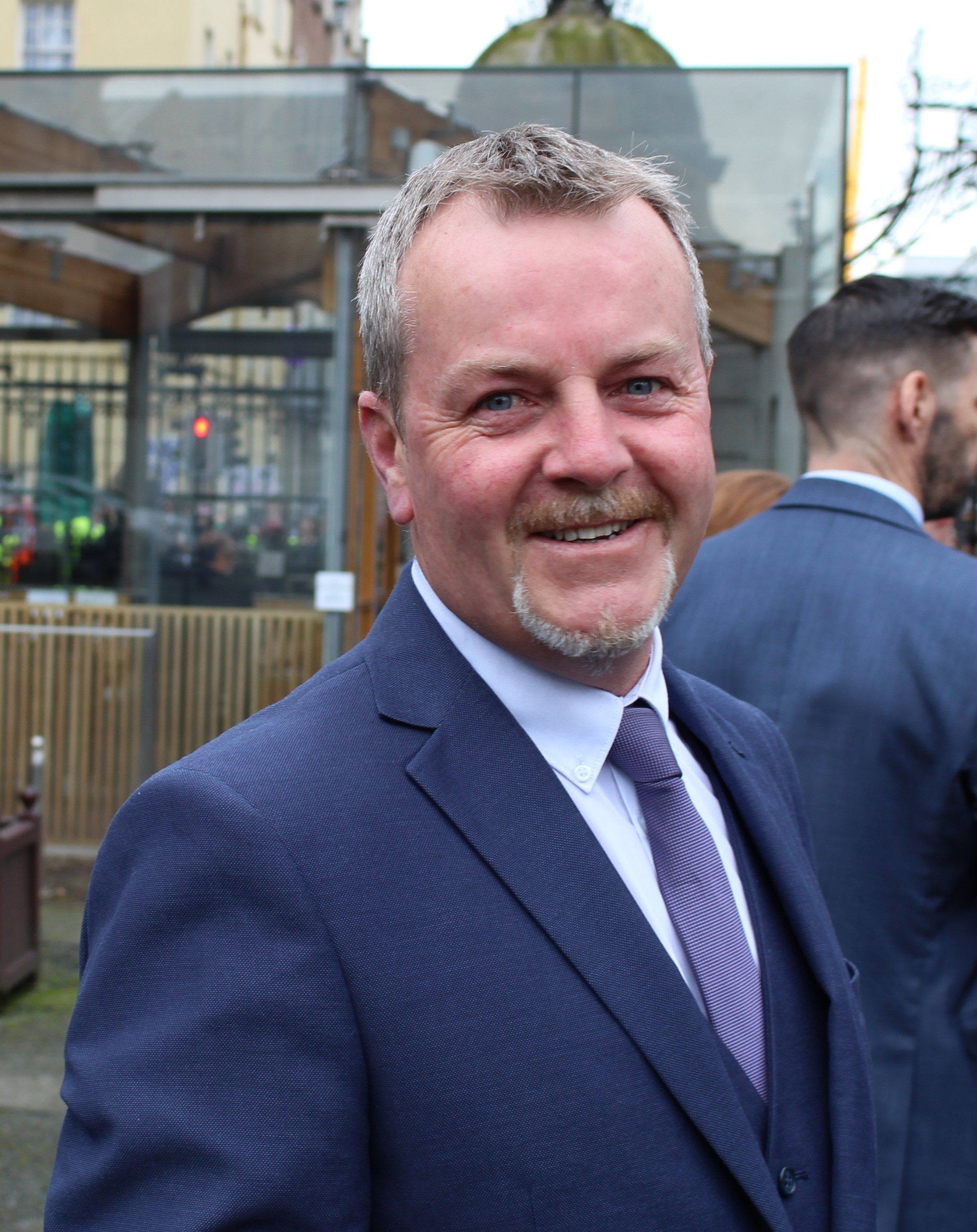 Pat Buckley TD